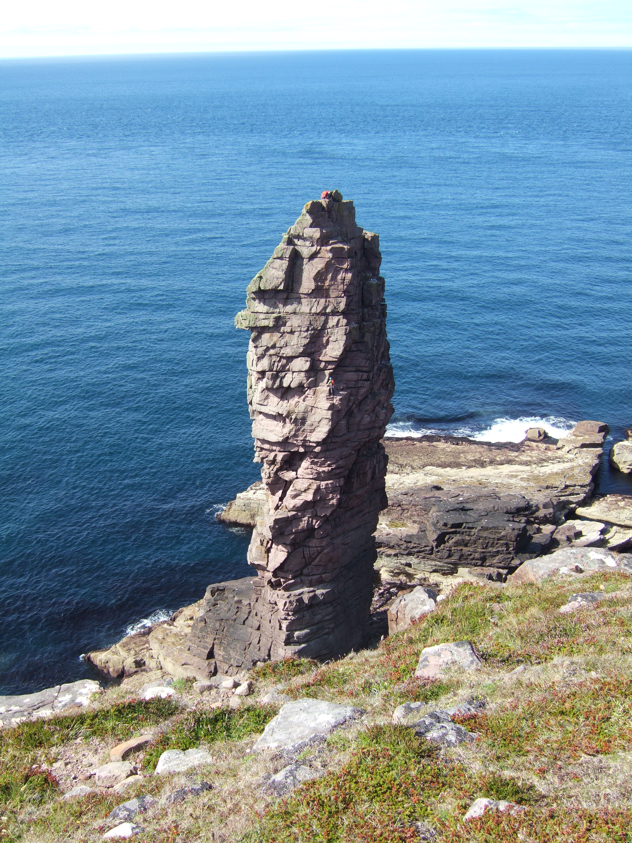 Old Man of Stoer